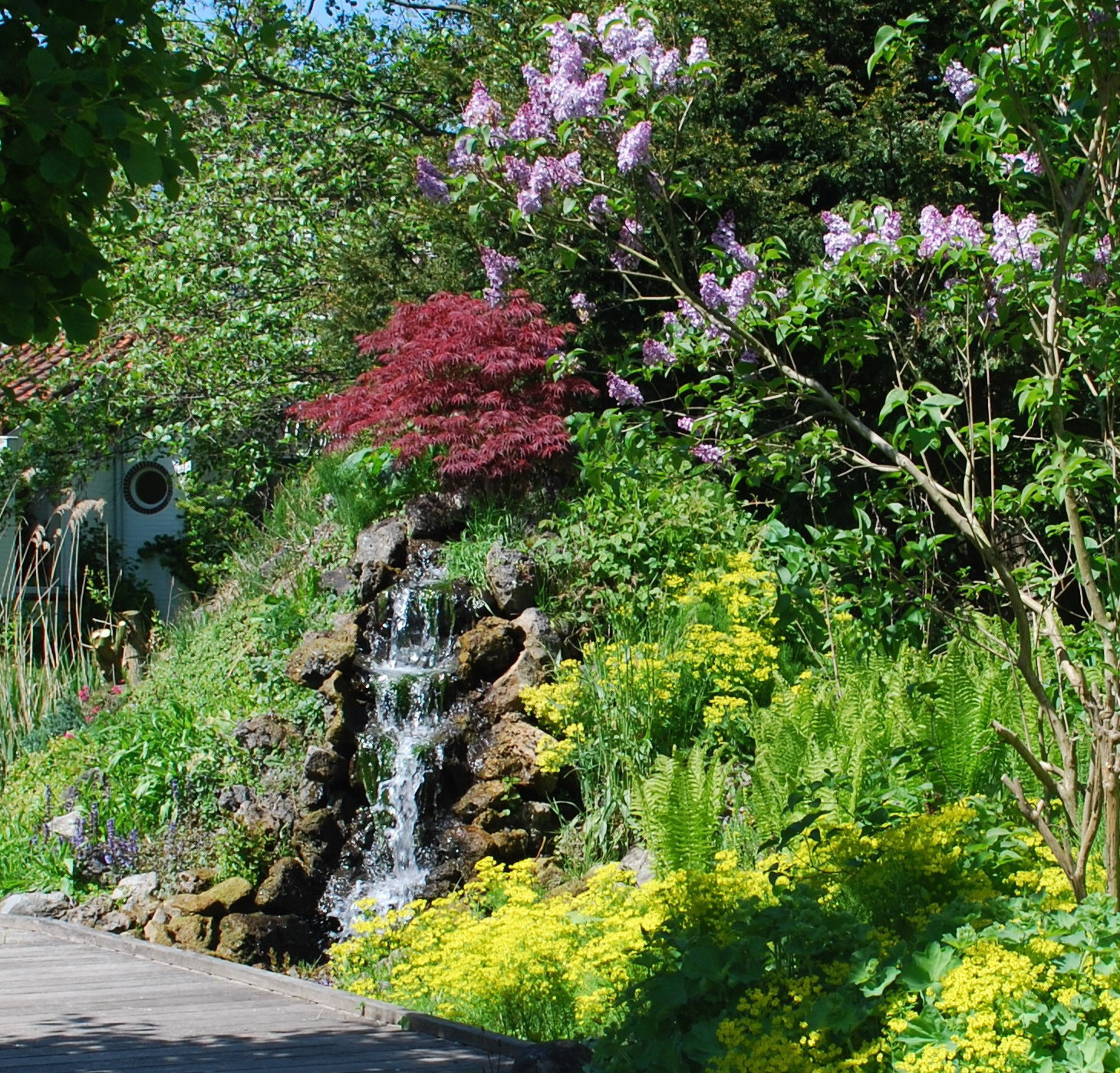 Waterval (Cascade) Tuin van Kapitein Rommel